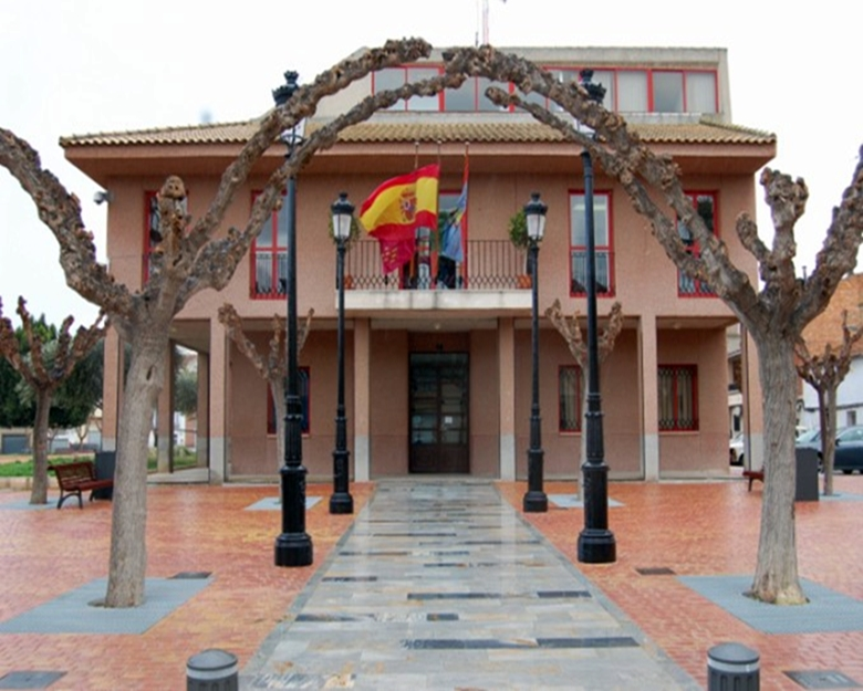 Alguazas town hall